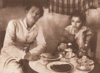 Actors Ali Mansoor and Zahrat Ara in the film "Mukh O Mukhosh"